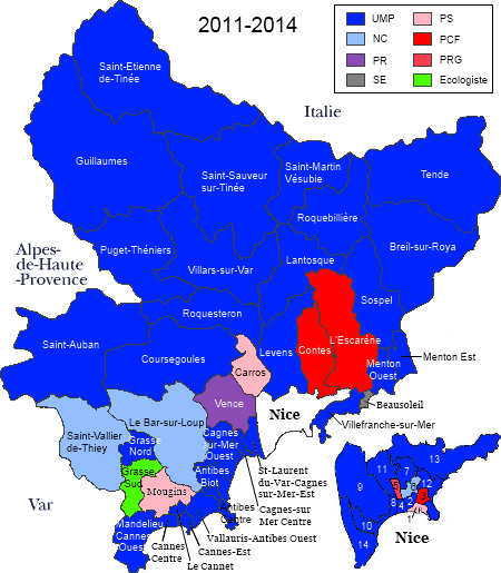 Map of political labels of conseillers généraux of Alpes-Maritimes department by canton for 2011-2014 mandate.